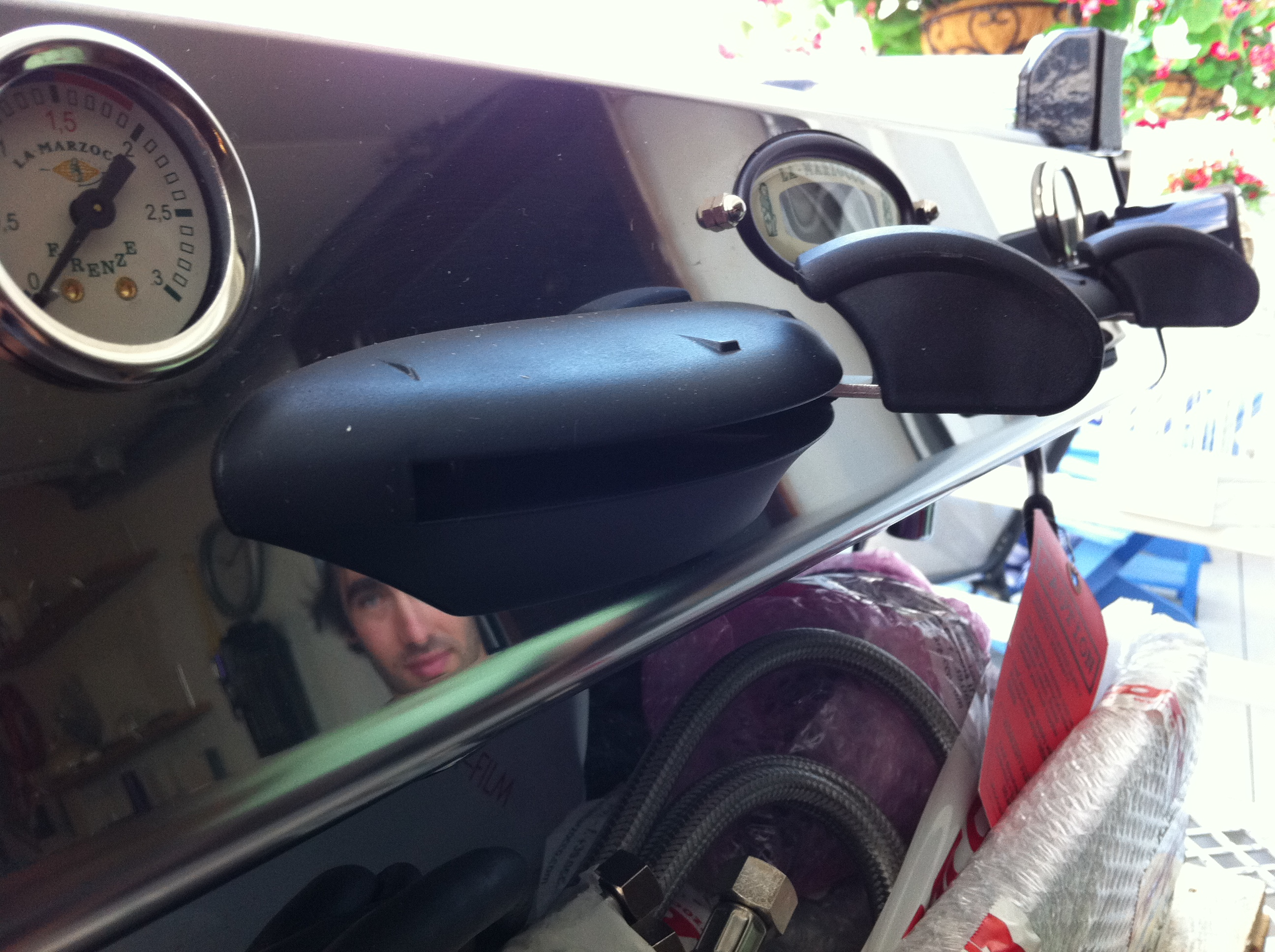 This is the front side of a La Marzocco GB5 2 group Paddle version espresso machine.